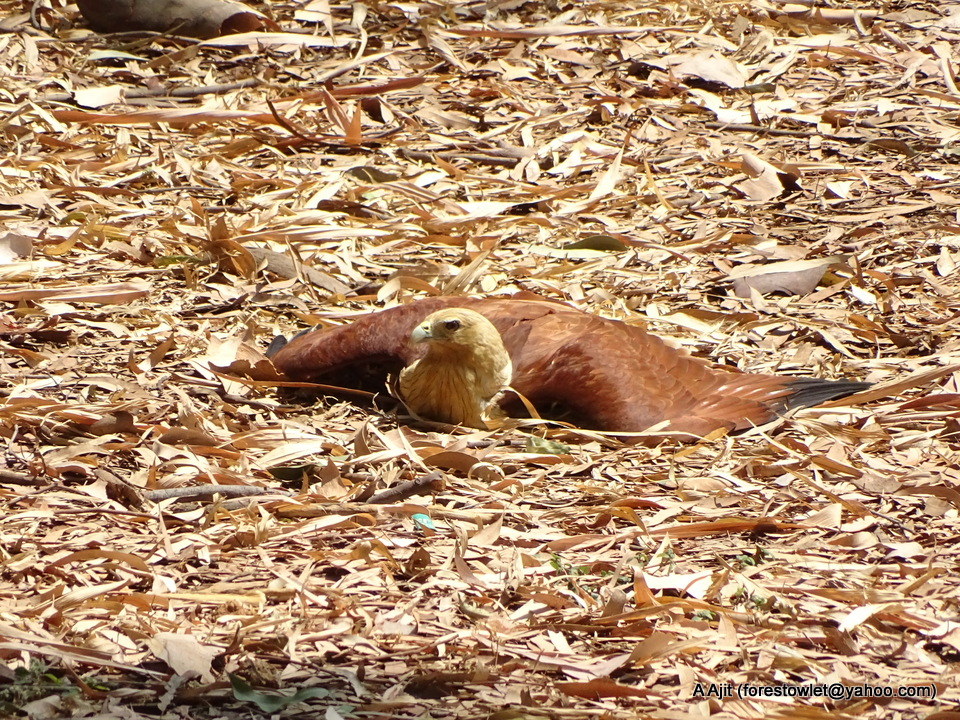 Anting behaviour seen by Brahminy Kite (Haliastur indus) in lalbagh Botanical Garden Bangalore